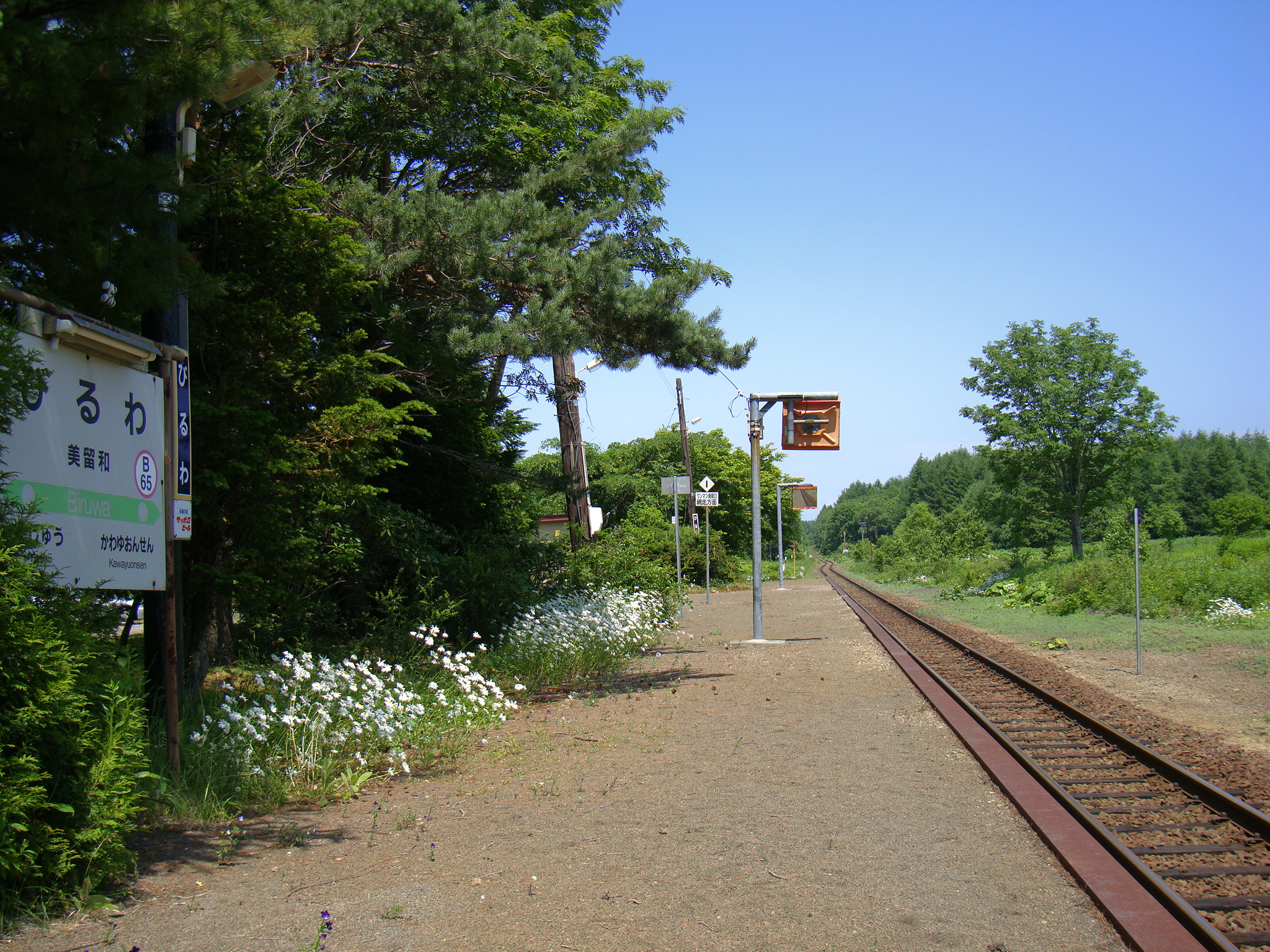 Biruwa Station